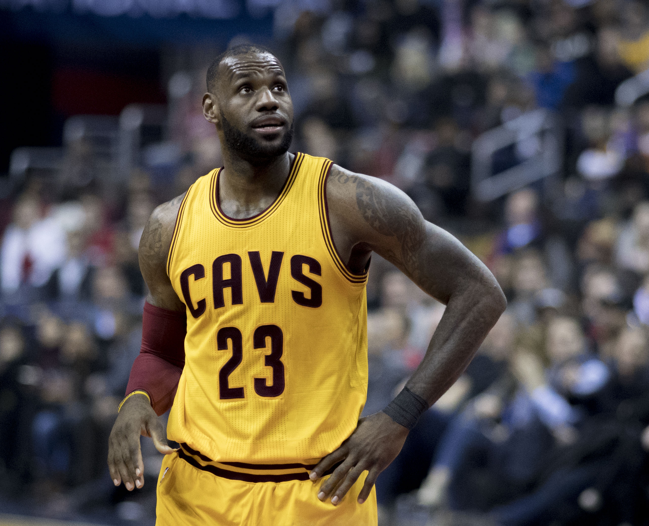 Cavaliers at Wizards 2/6/17